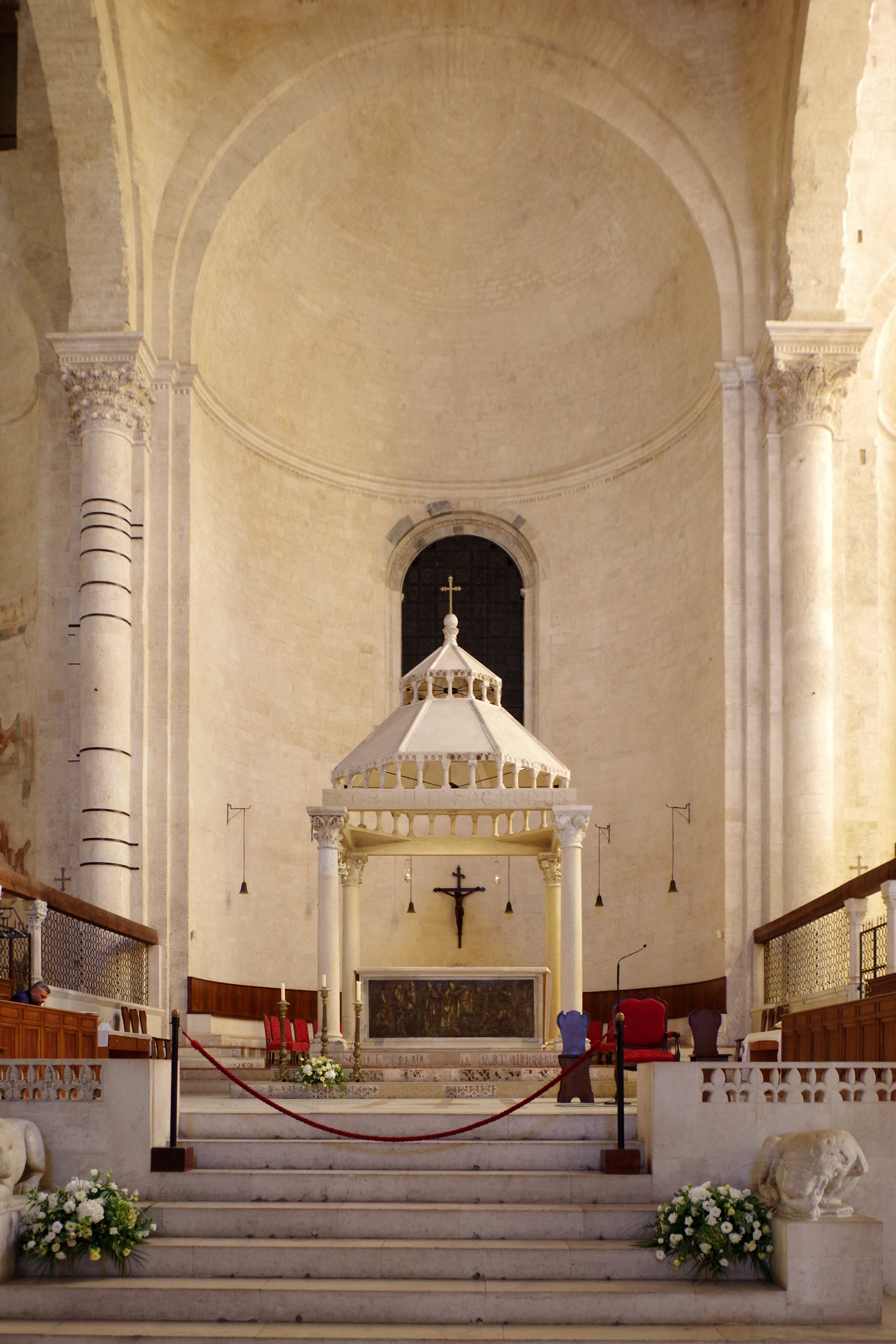 Italy, Bari, Cathedral San Sabino